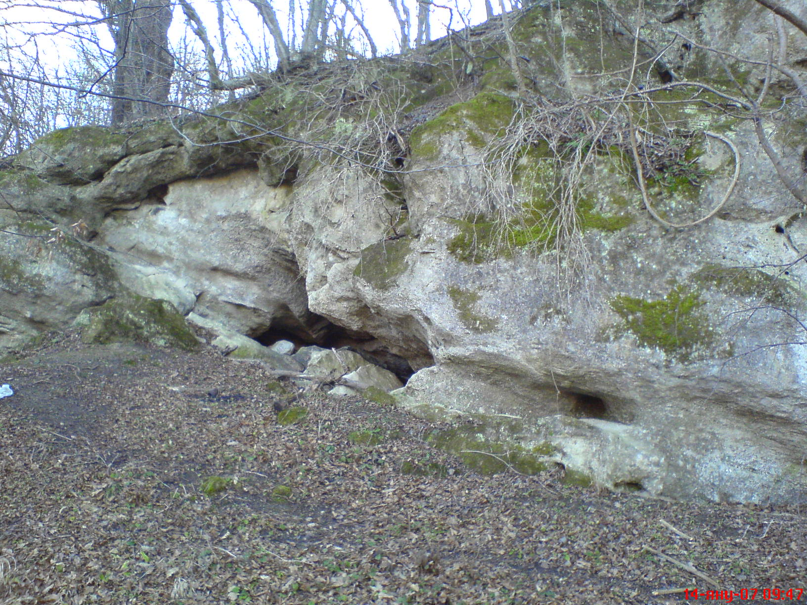 Cave Sushitza is located in the locality of village Studeno buche, Bulgaria, some 2 km northern to the village.